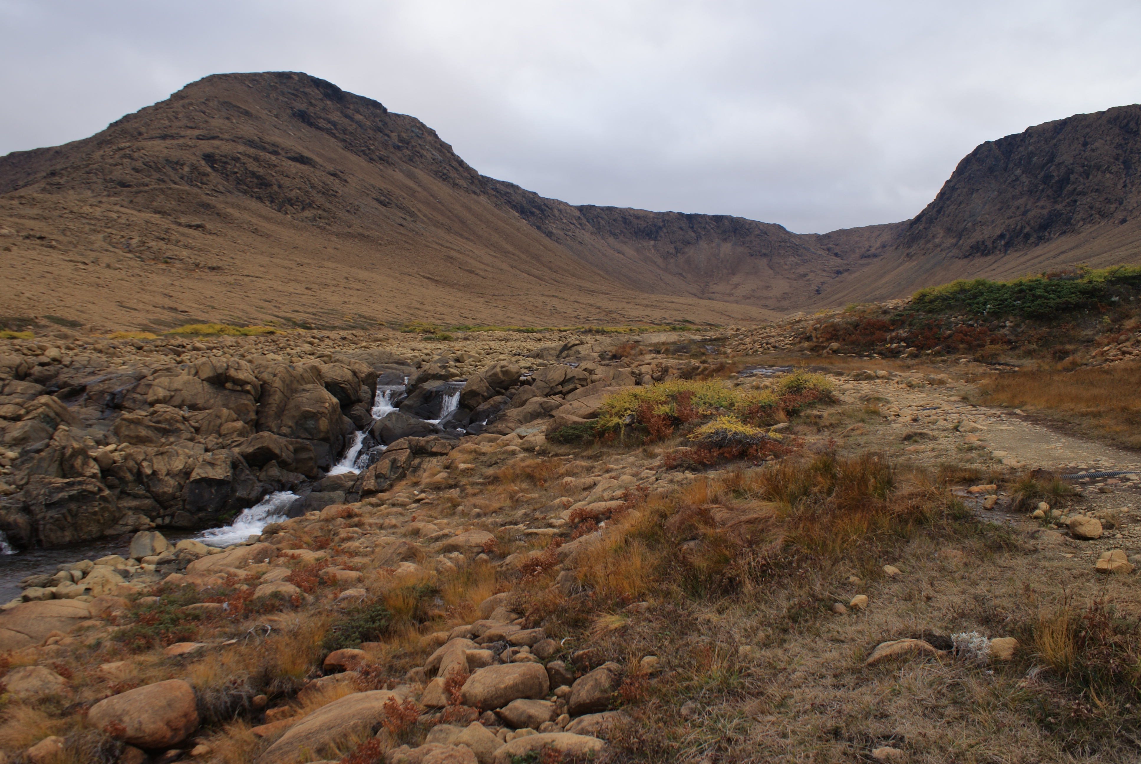 Landscape in the Tablelands, a part of Gros Morne National Park on Newfoundland, Canada.